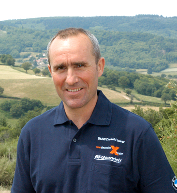 Stephane Peterhansel